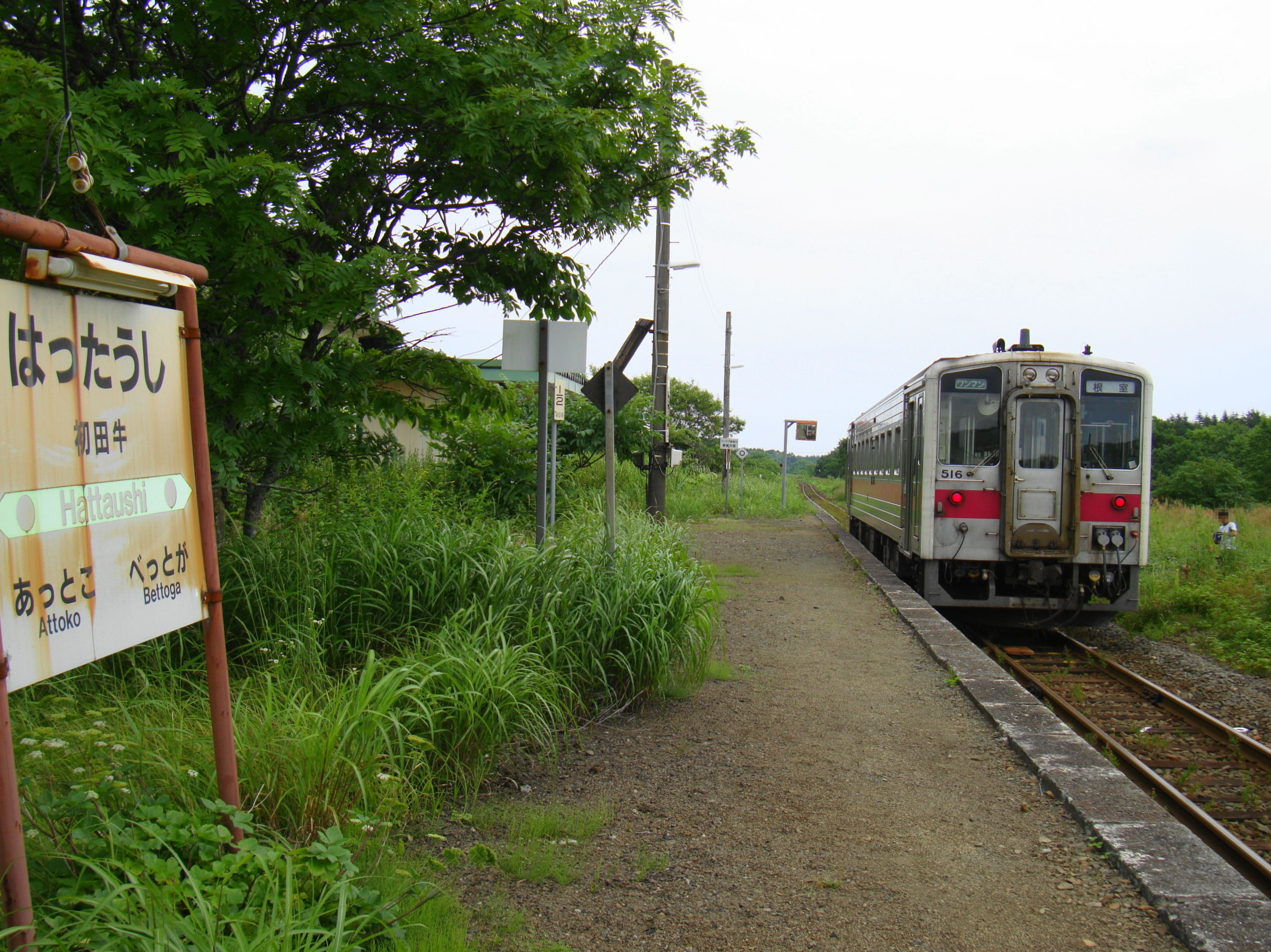 Hattaushi Station